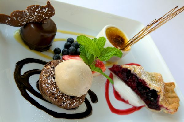 Made by Chef Sean Christopher